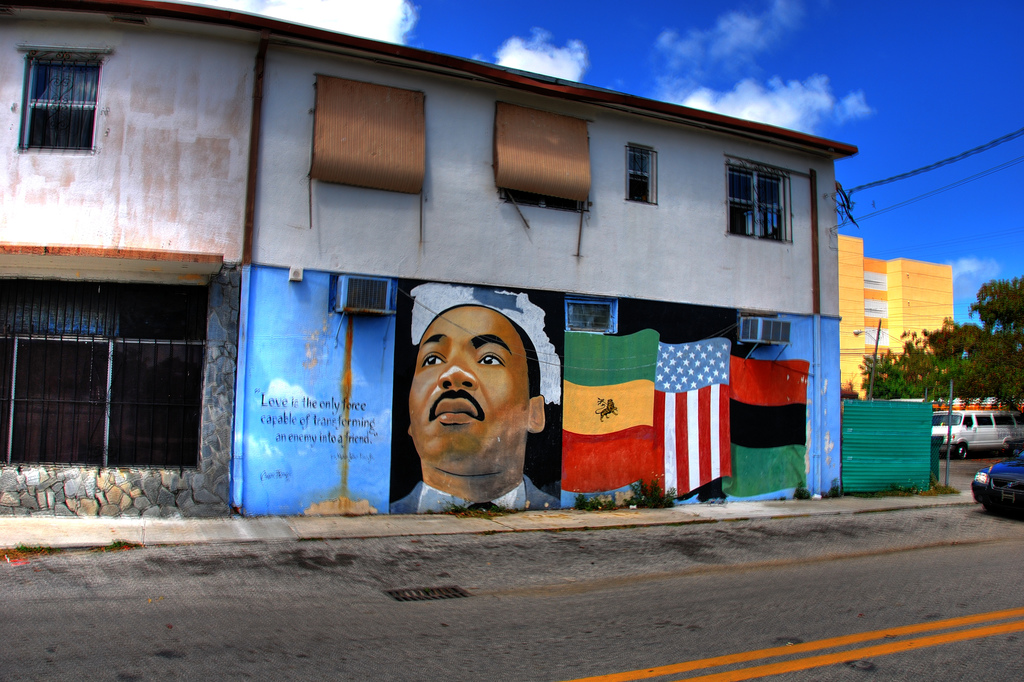 Portrait of Martin Luther King, and flags of imperial Ethiopia, the U.S., and Marcus Garvey on mural. This mural was drawn by the late Artist Oscar Thomas, and depicts "The African American Historical Flag" which has been coin the "UNITY FLAG" by popular demand. This Unity Flag has the distinction of being the first flag patented by the United States Governments; Patent and Trademark office, Patent registration Number #DES.316,383., as designed by: MR. VINCENT W. PARAMORE of VWP Good Success Industries of Miami Florida. This flag was designed to portray the history of African Americans and has been accepted by many in the African American and Black Community nationwide as their symbol of History and Unity.